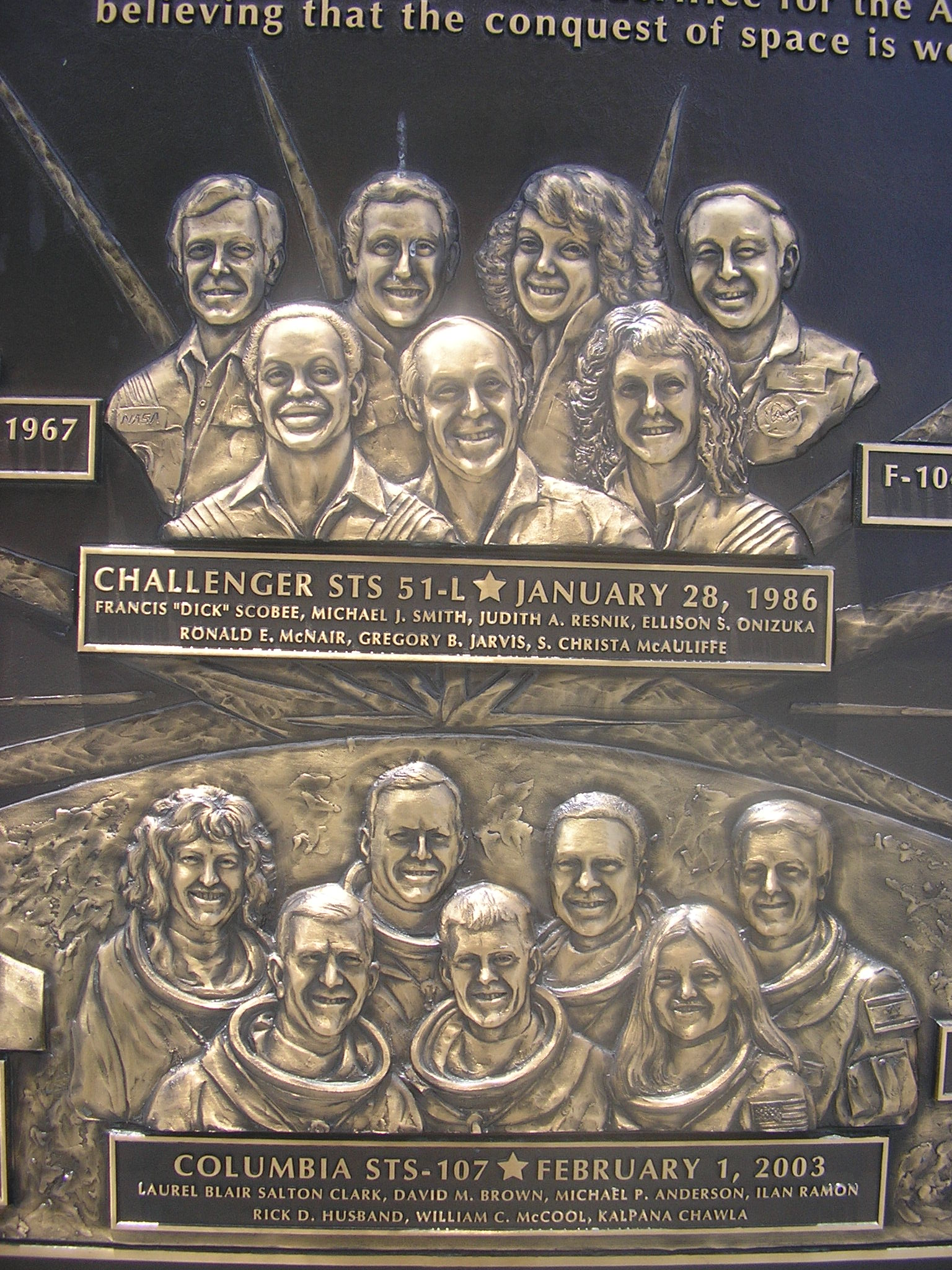 A portion of a plaque laid at the Astronaut's memorial at Kennedy Space Center in Cape Canaveral, FL.